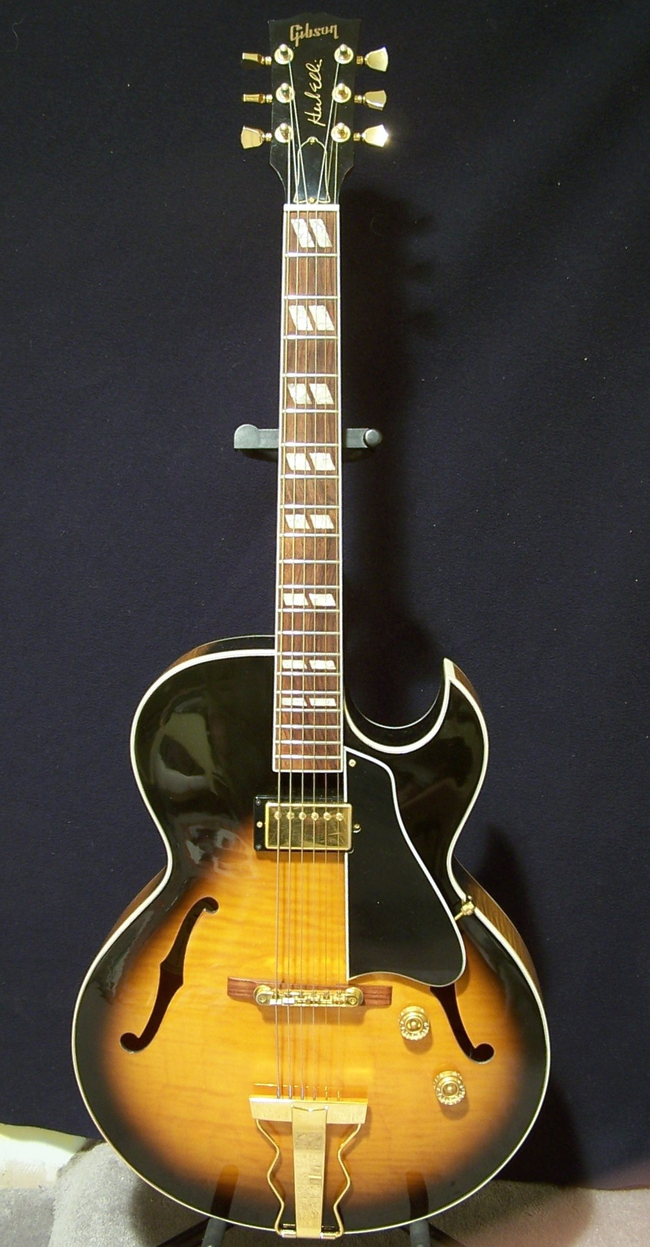 Gibson ES-165 Herb Ellis (1996) Photo by Andrew Cormier No Rights Reserved.